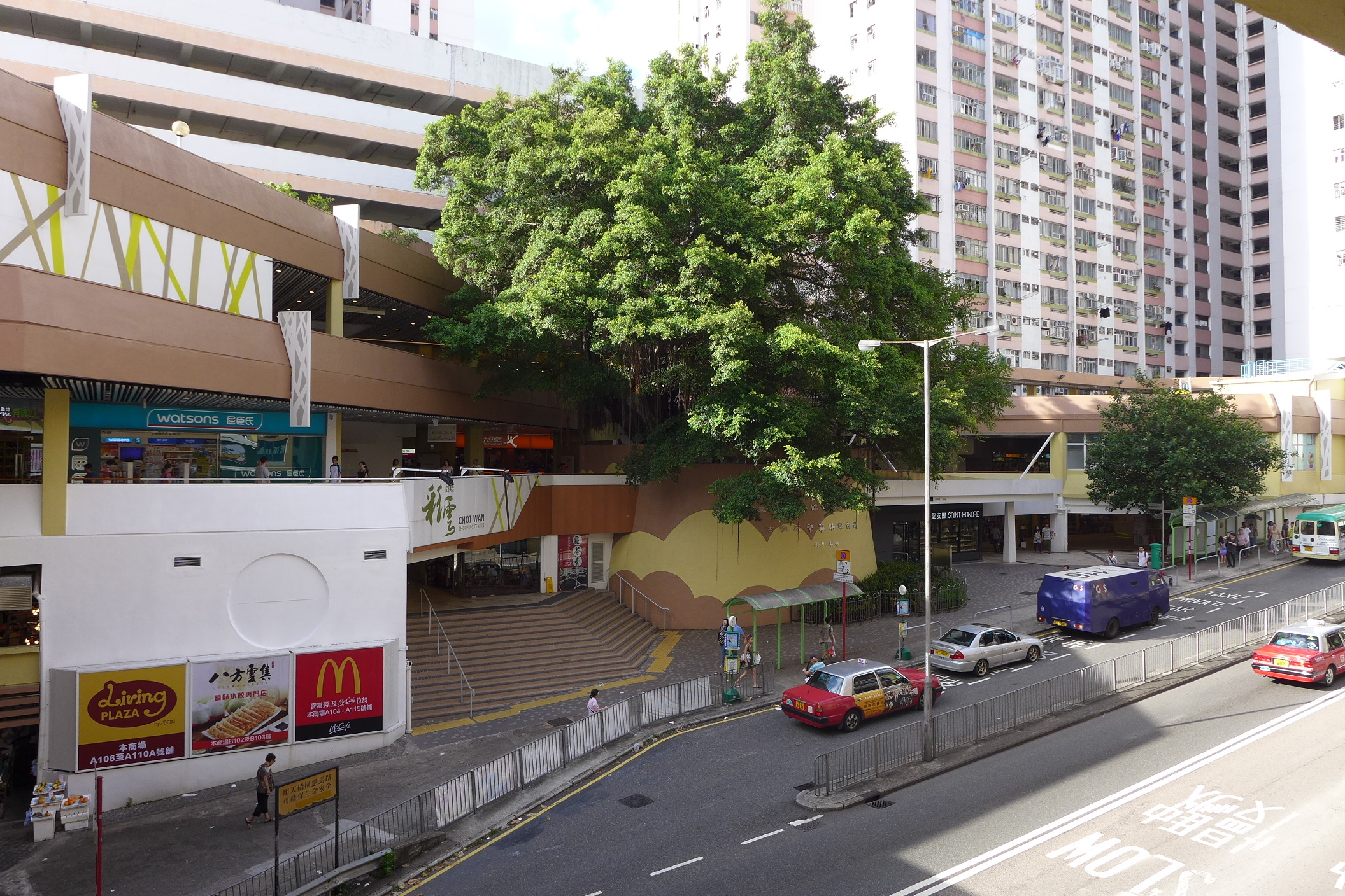 Choi Wan Estate Shopping Centre Phase 3